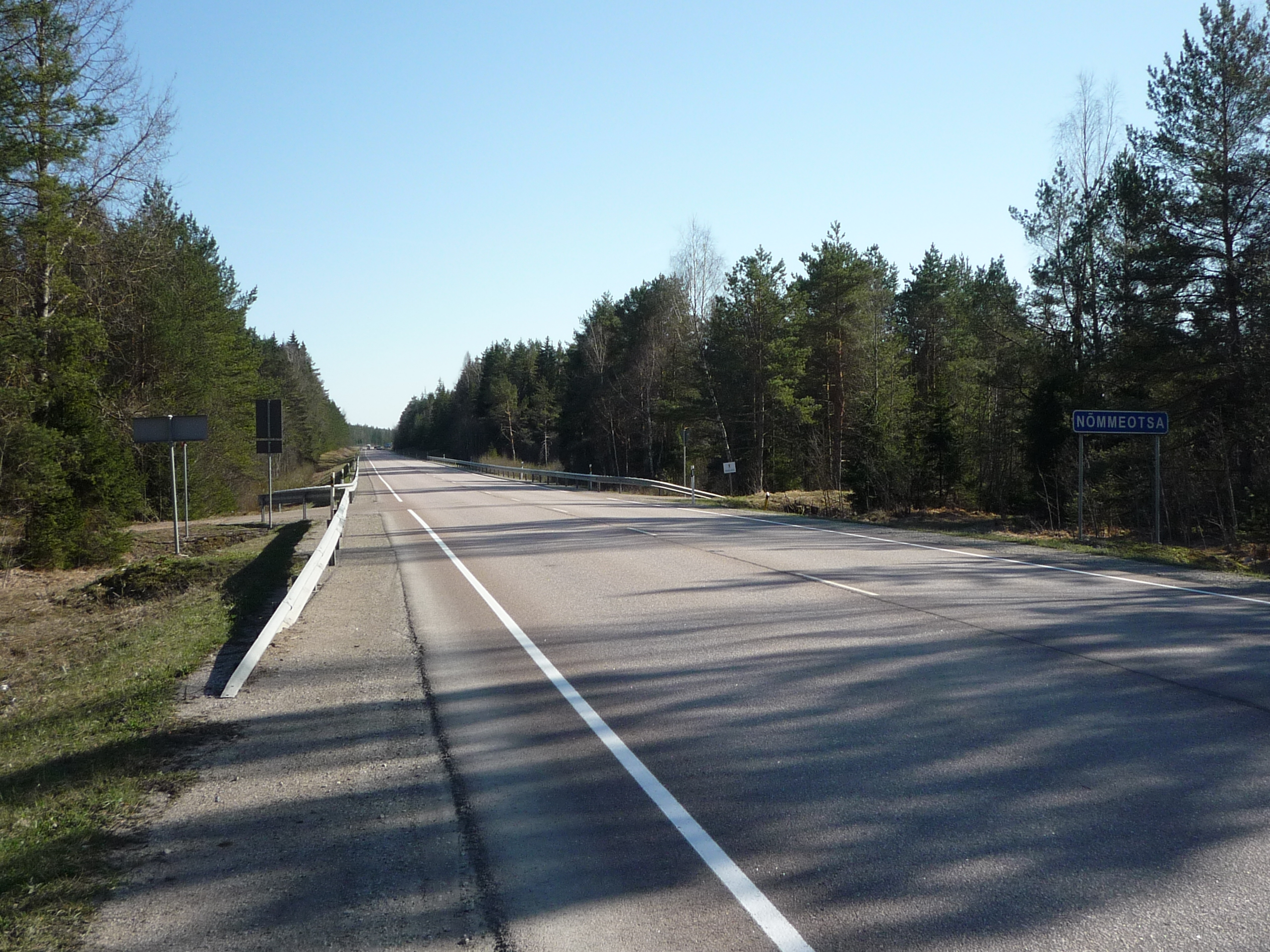 Tallinn-Pärnu road, 67th kilometer. Old railway crossing at the border of Märjamaa, Orgita and Nõmmeotsa. View from north. Märjamaa parish, Rapla county, Estonia.